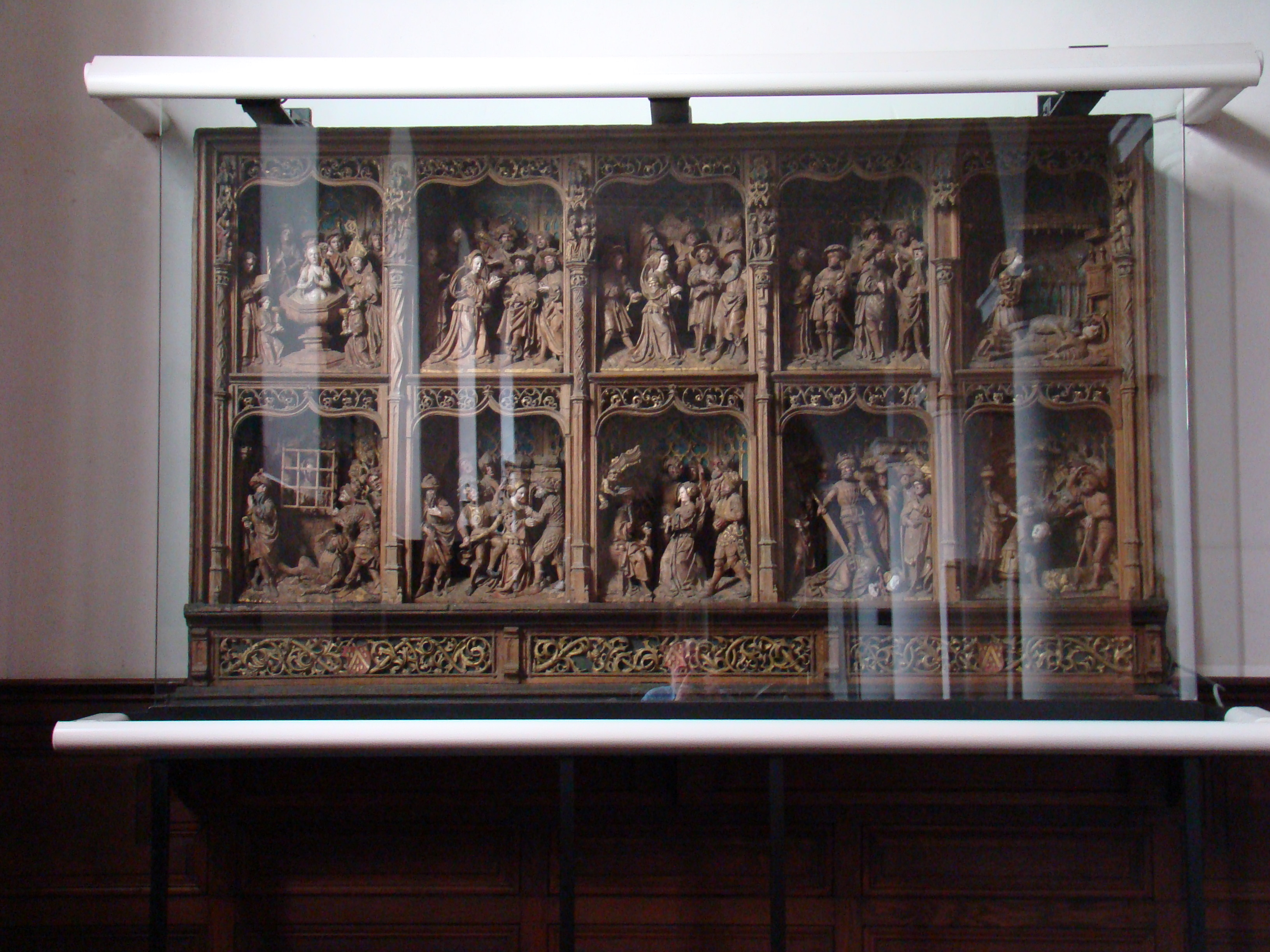 Sint-Columba church Deerlijk (West Flanders, Belgium)